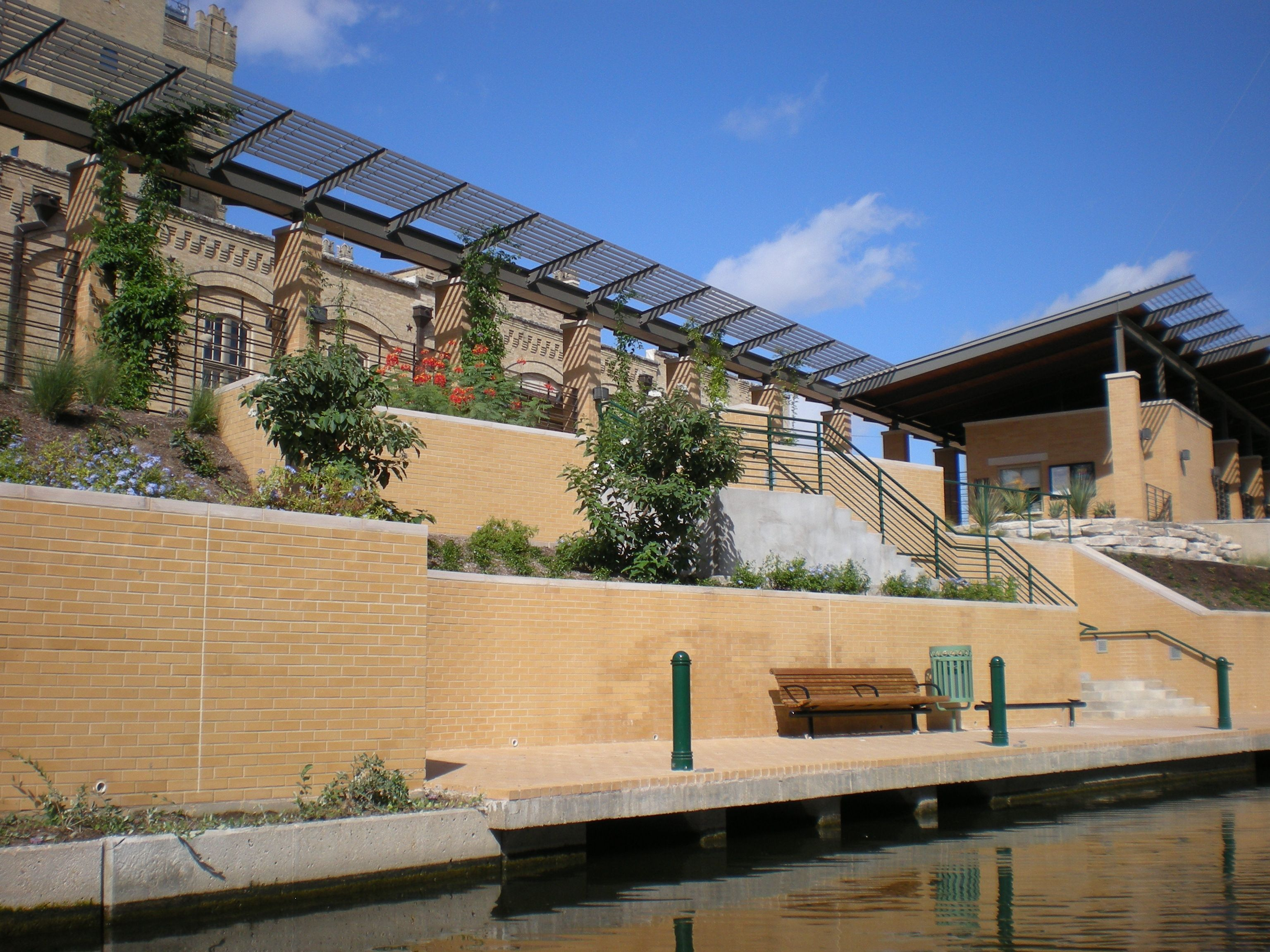 Landing for the San Antonio Museum of Art on the new "Museum Stretch" extension of the River Walk in San Antonio, 2009.